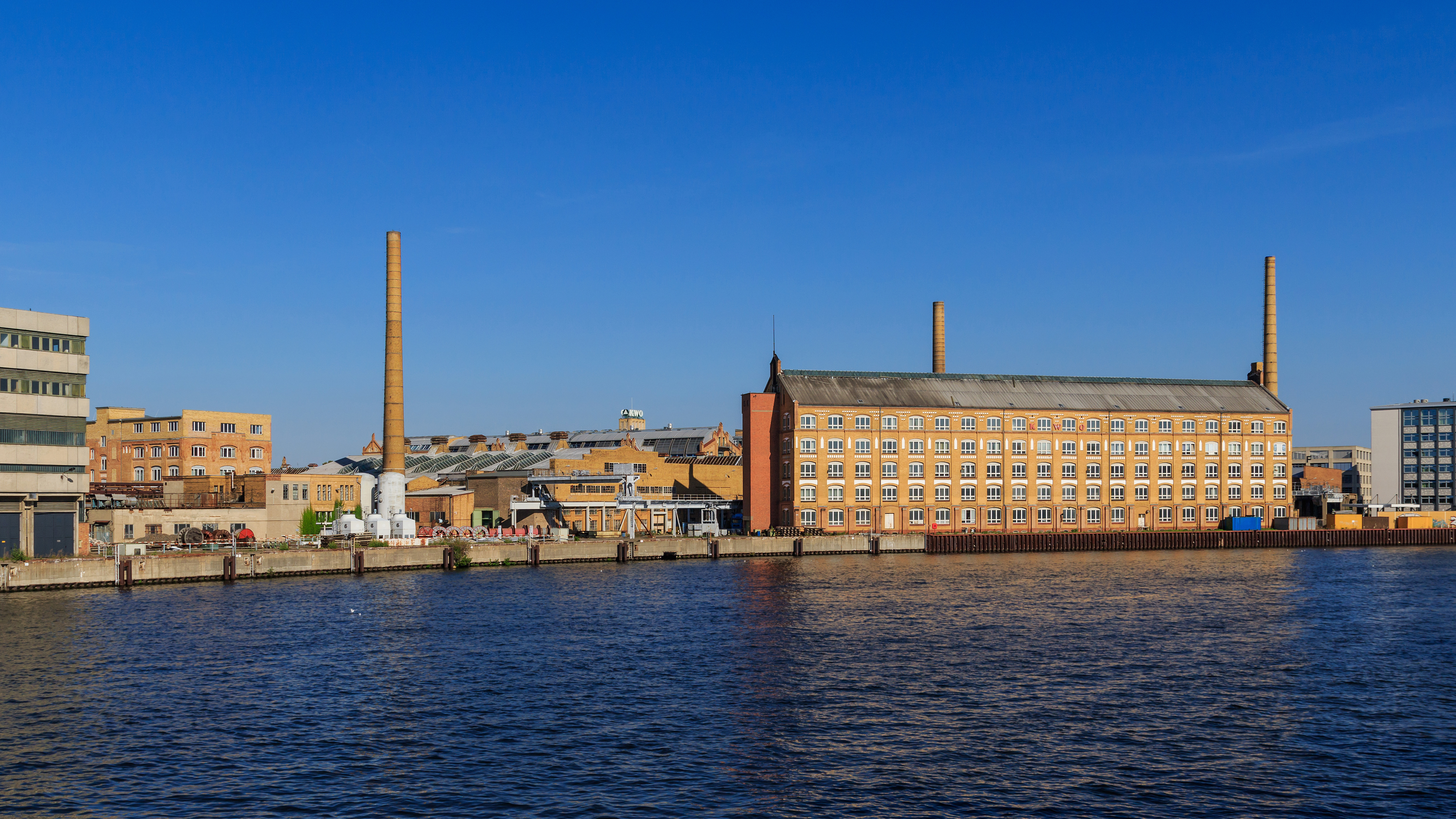 Former industry building in Oberschöneweide in Berlin (Germany)